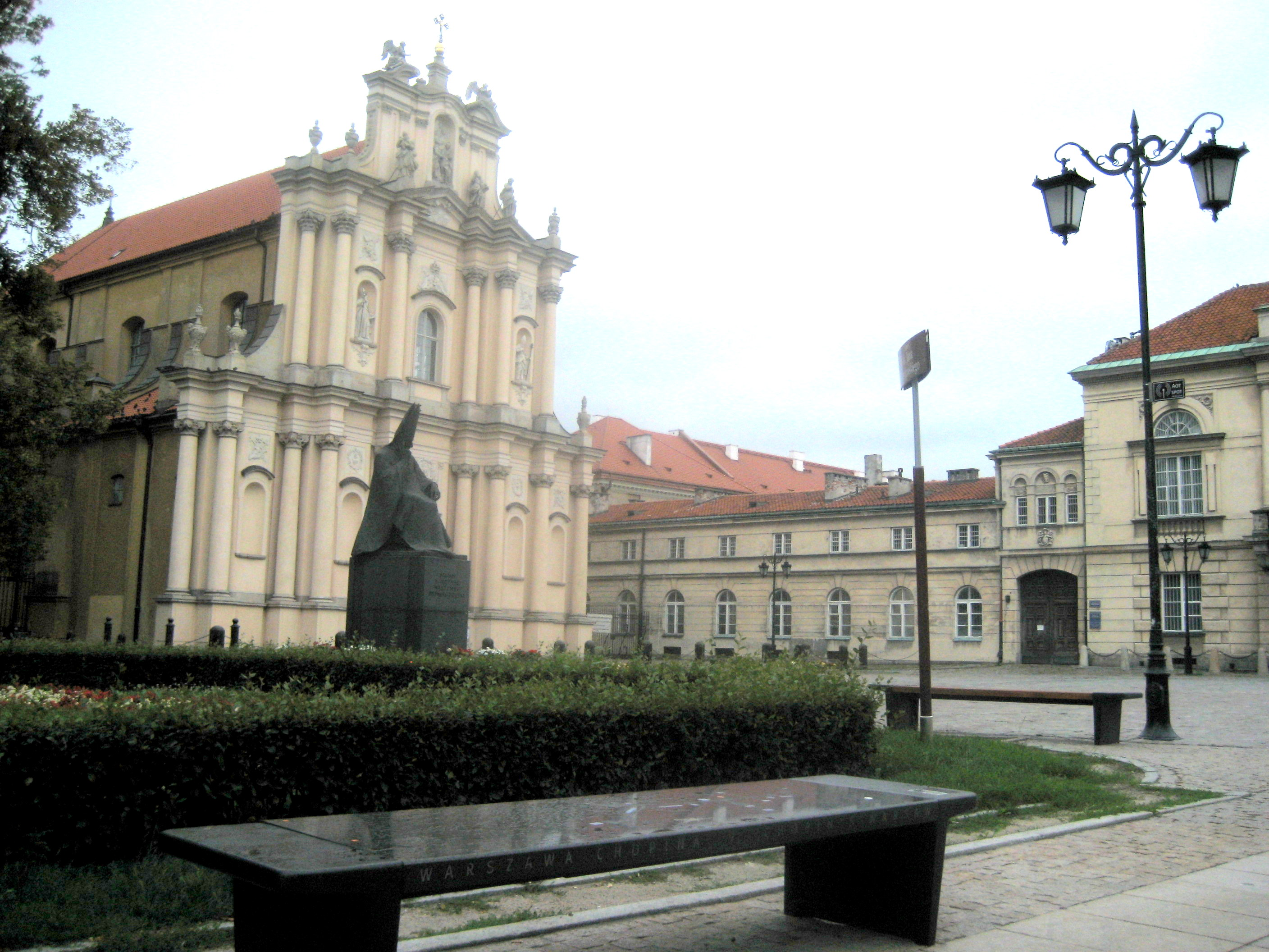 "Chopin's Warsaw" bench (foreground): one of 14 benches created in Warsaw, Poland, for the 2010 bicentennial of Fryderyk Chopin's birth. The benches stand near Chopin landmarks such as his last Warsaw residence (the Krasiński a.k.a. Czapski Palace), Warsaw's Carmelite Church where he played organ as a boy (this photo), and the Wessel Palace where in 1830 he boarded a stagecoach bound for Vienna. Pressing a button on a "Chopin's Warsaw" bench makes it play a few bars of a Chopin composition.